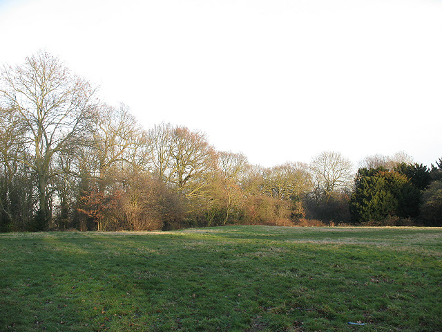 Open space off Shooters Hill. This small open space of about 1 hectare is on the south side of Shooters Hill, at the northern end of Oxleas Wood 1134186.